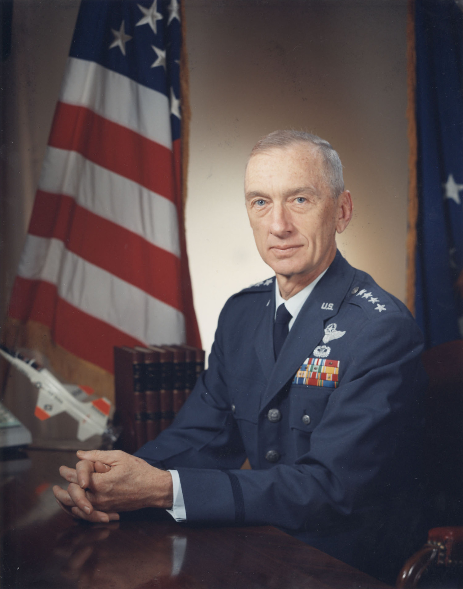 General Bruce Keener Holloway, USAF